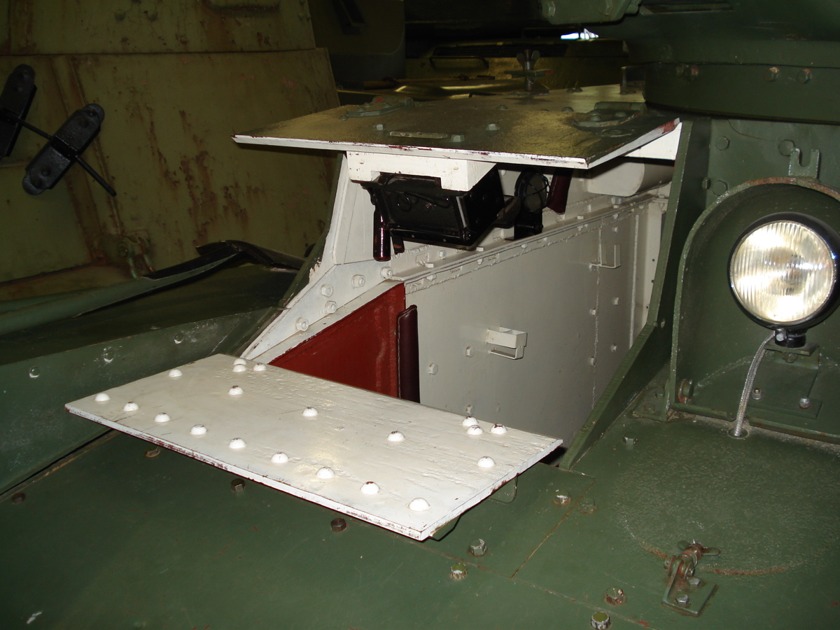 Soviet T-26 model 1933 tank, in Finnish markings, displayed in Finnish Tank Museum (Panssarimuseo) in Parola. This particular tank has been restored to drivable condition. Photo taken on July 14, 2006. Source: Photo by me, User:Balcer.